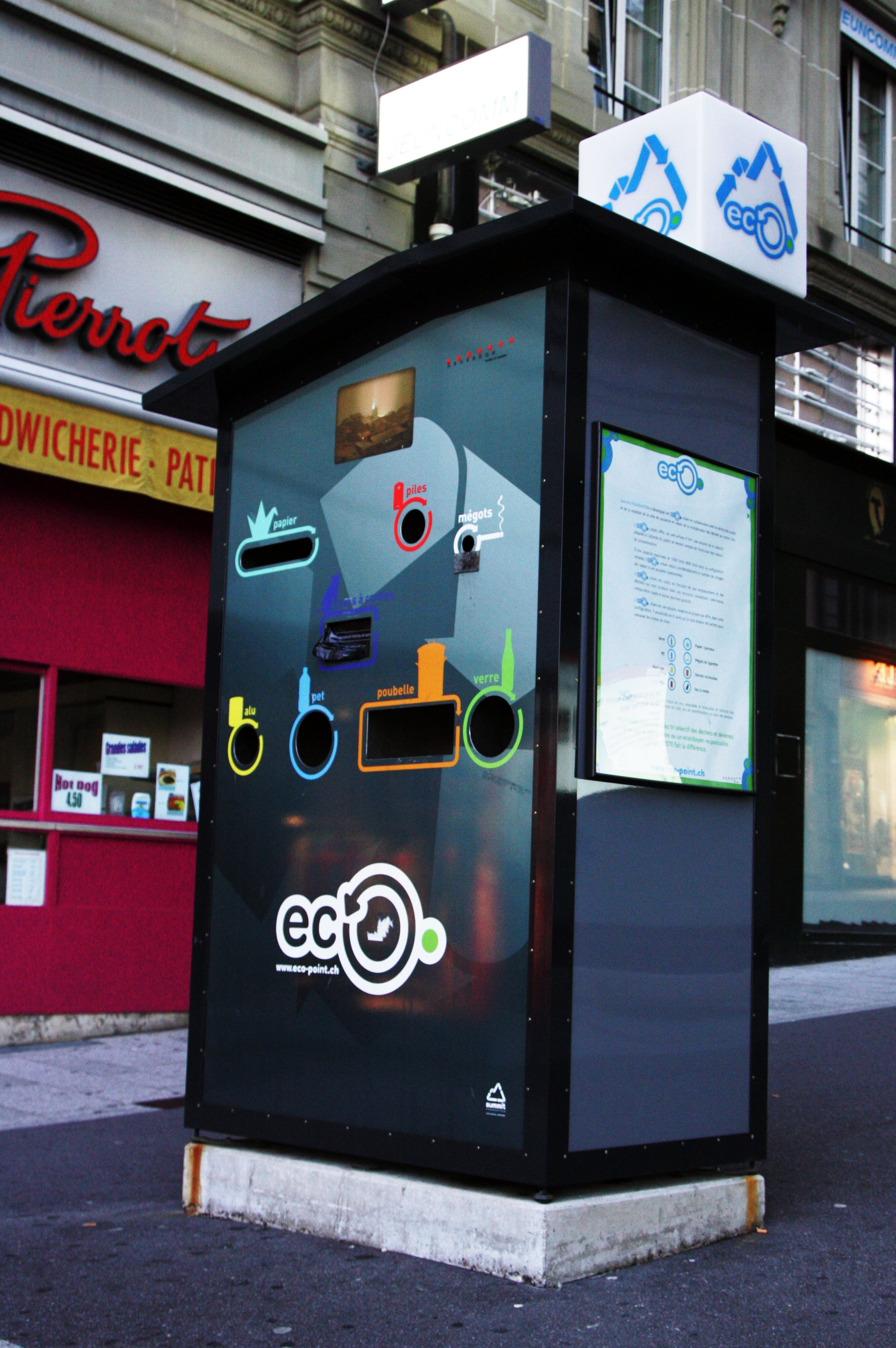 Trash containers in Lausanne